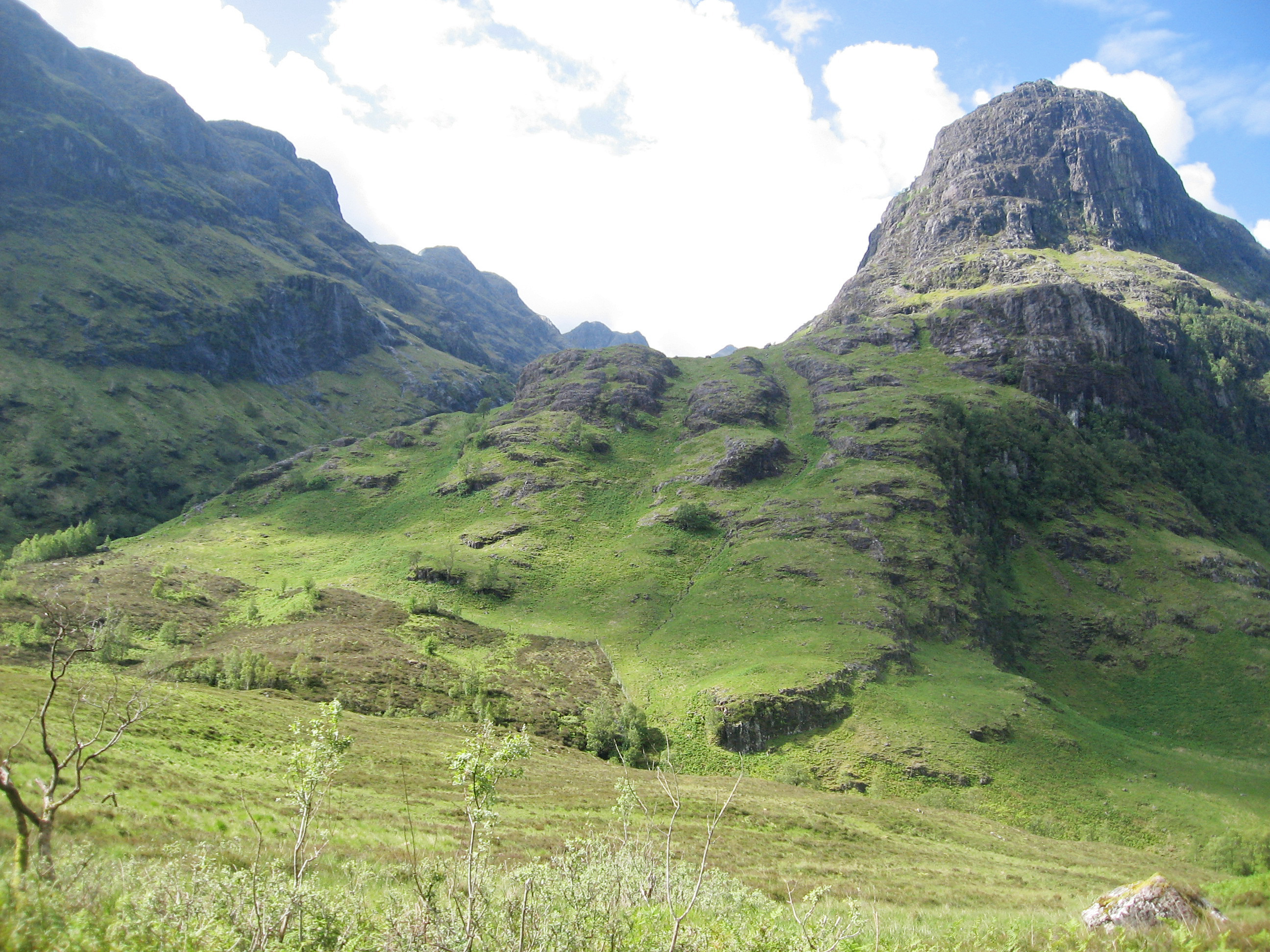 The north face of Bidean nam Bian in Glen Coe, Scotland: on the left, Beinn Fhada, and on the right Gearr Aonach, the middle of the Three Sisters of Glencoe. A line marked by trees across the foreground marks the gorge of the River Coe, and the diagonal line sloping up from left to right marks the ravine leading up to Coire Gabhail, the Lost Valley of Glencoe.